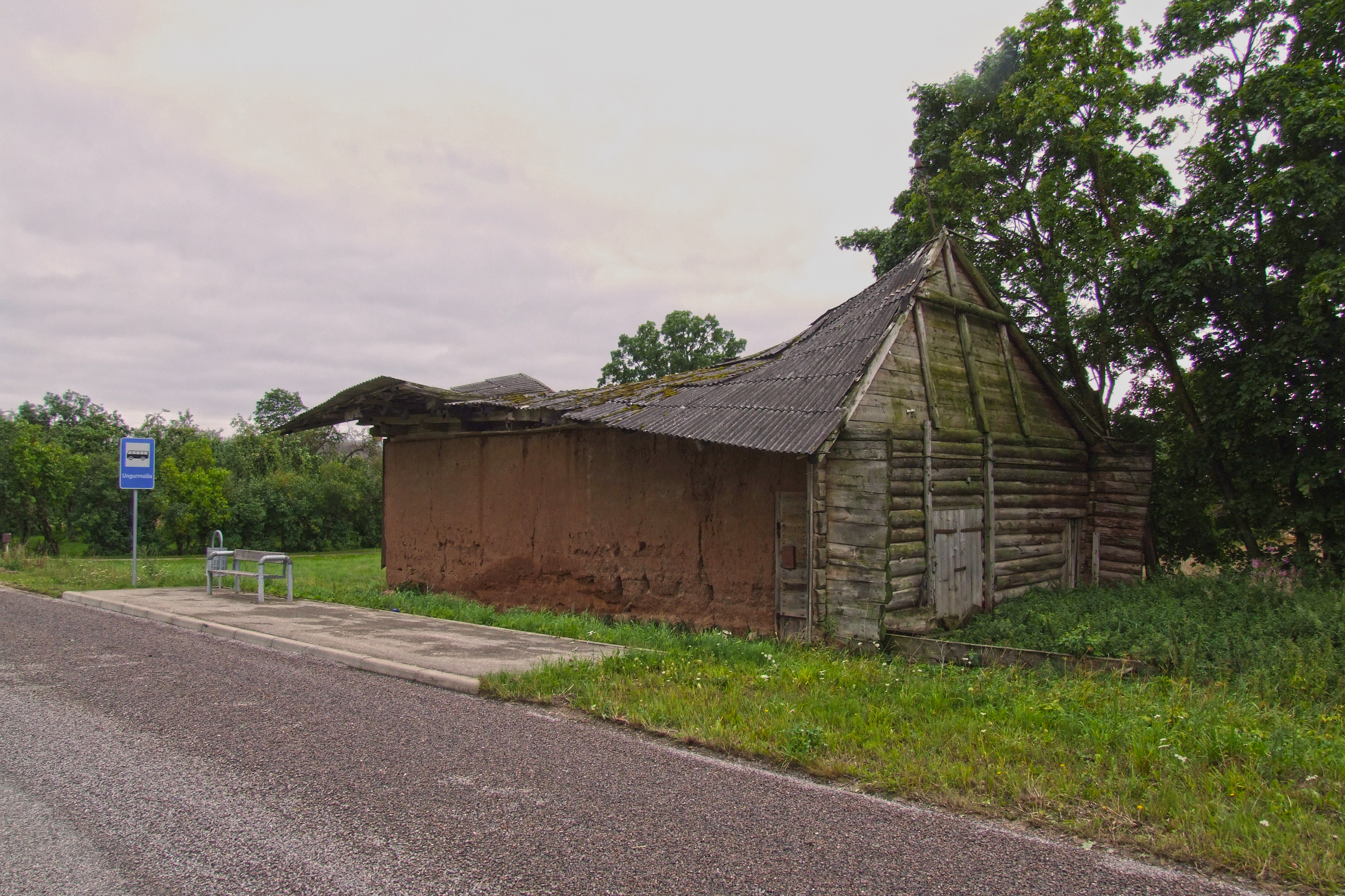 Bus stop in Ungurmuiža